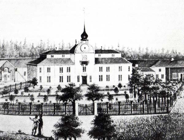 The farm Vinje bruk in Mosvik, Norway. The old main building standing 1740-1890